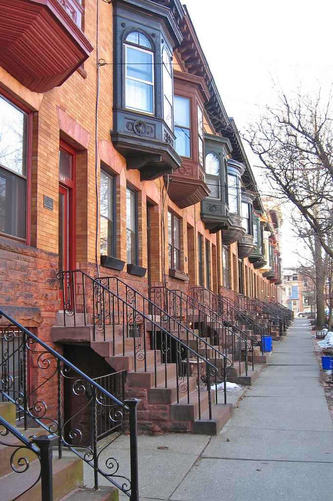 A view of Chestnut Street between Lark and Dove Streets in Albany, NY